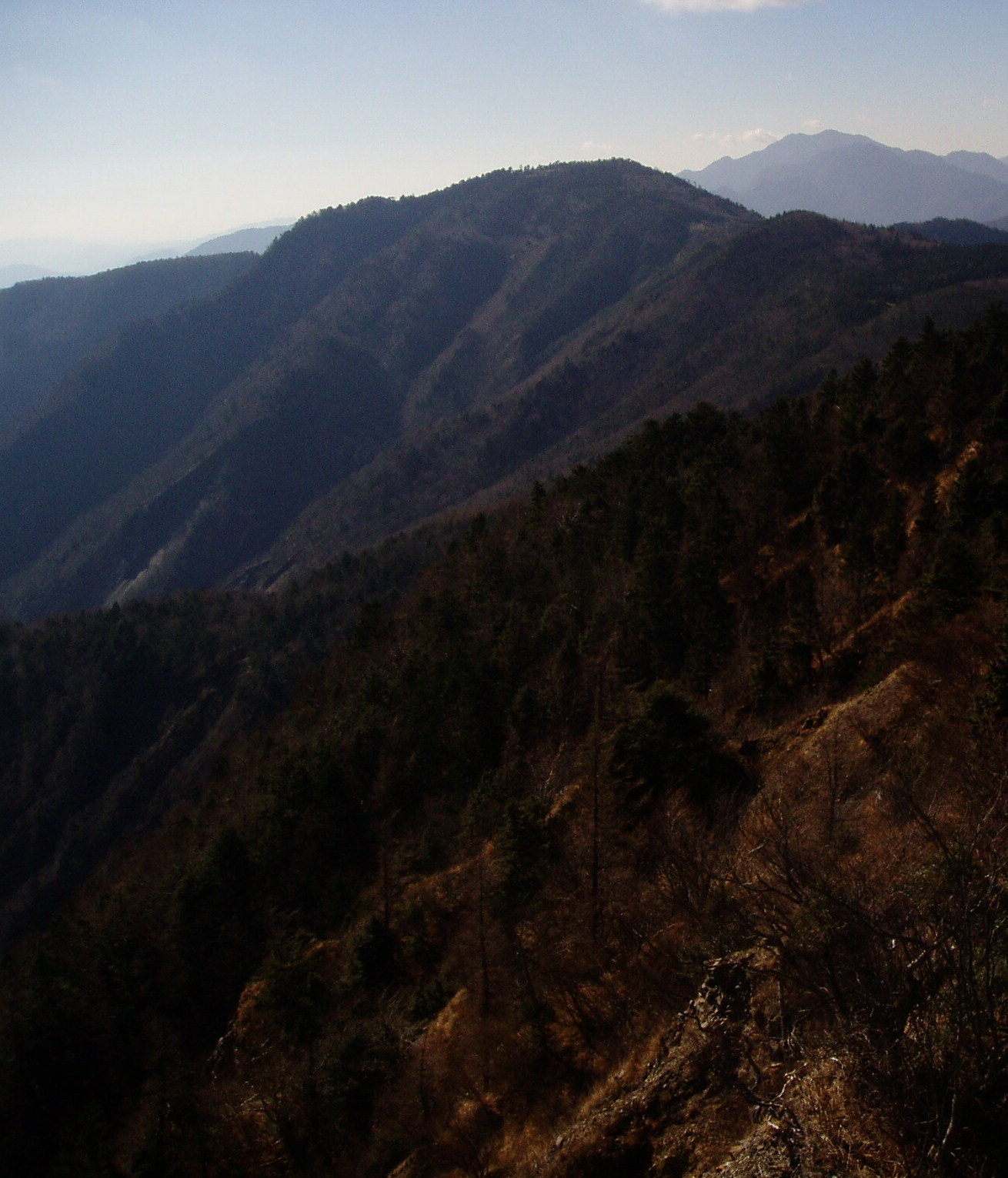 Mount Yanbushi seen from northeast. Taken from Mount Oyarei.